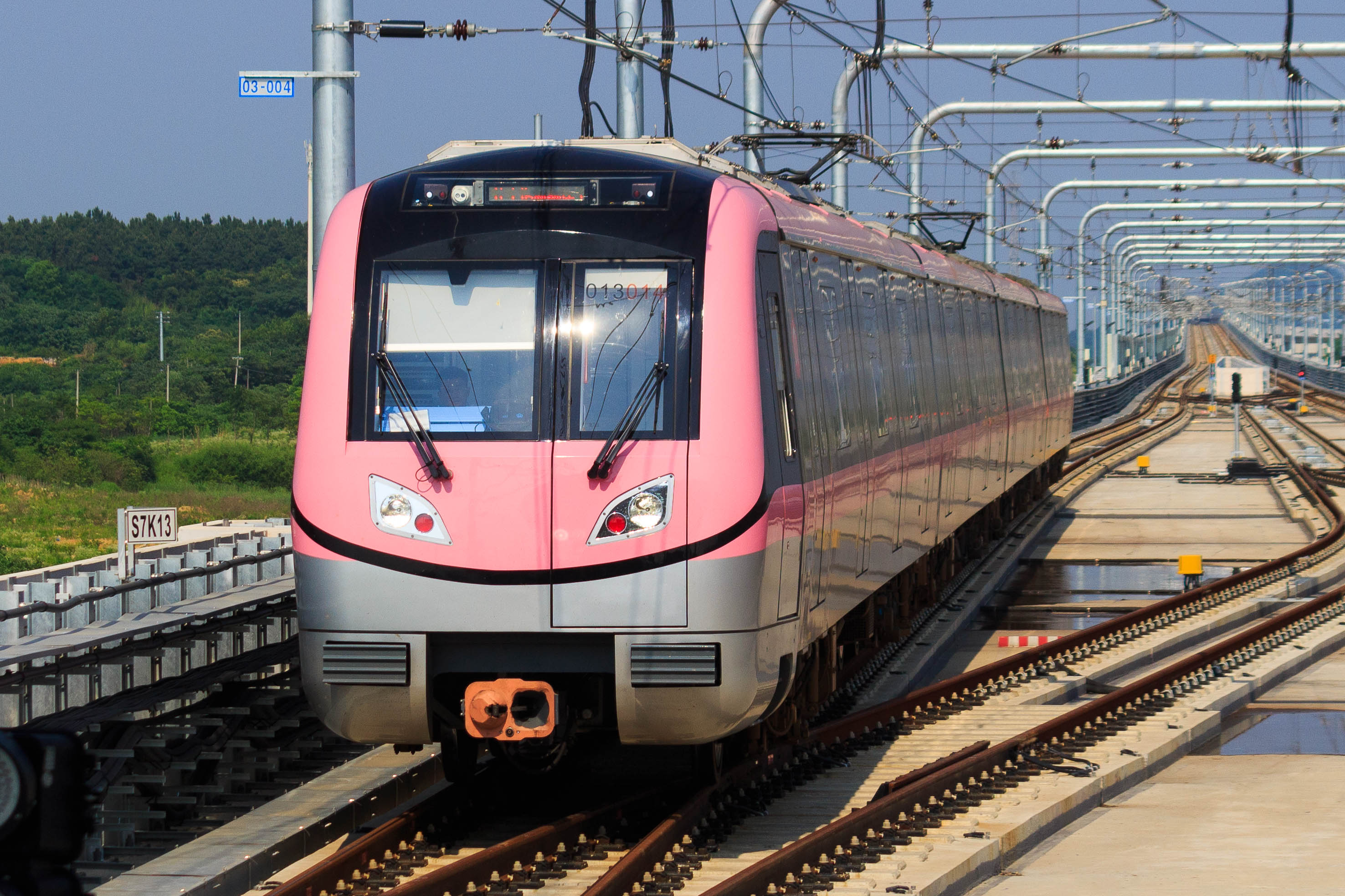 A train of Nanjing Metro Line S7 is approaching KONGGANGXINCHENGLISHUI station